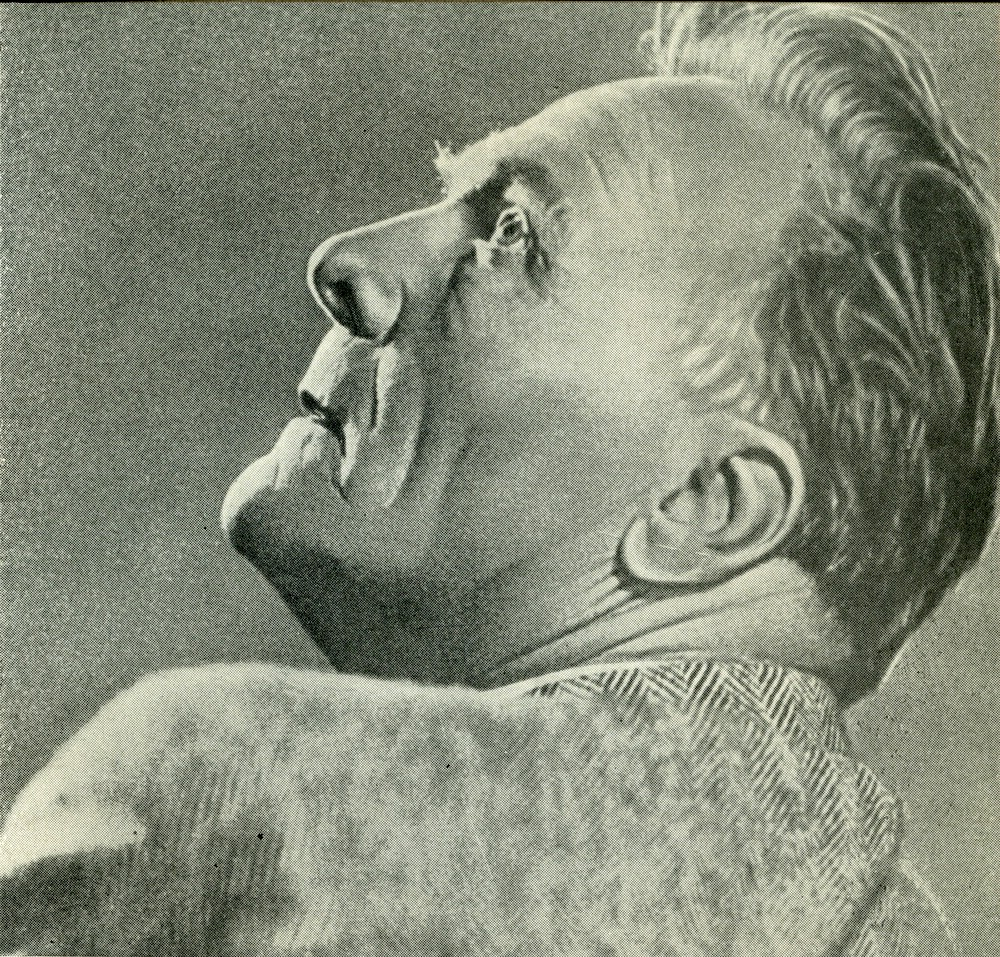 Feodor Chaliapin (1873-1938), Russian bass